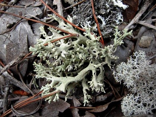 Cladonia perforata BLM photo, no copyright